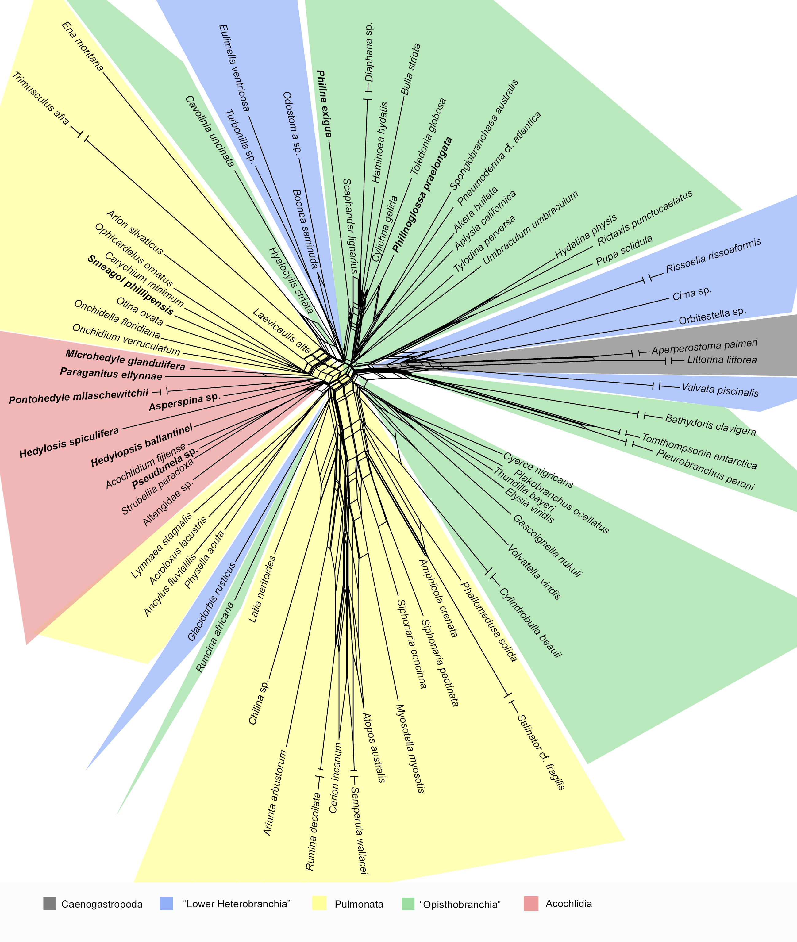 Neighbournet graph on the origin of Acochlidia. Generated with Splits Tree v4.6 from the concatenated, four marker dataset masked with Gblocks, visualising highly conflicting signal at the basis of the Acochlidia. Representatives of meiofaunal taxa highlighted in boldface, showing the absence of a common phylogenetic signal.